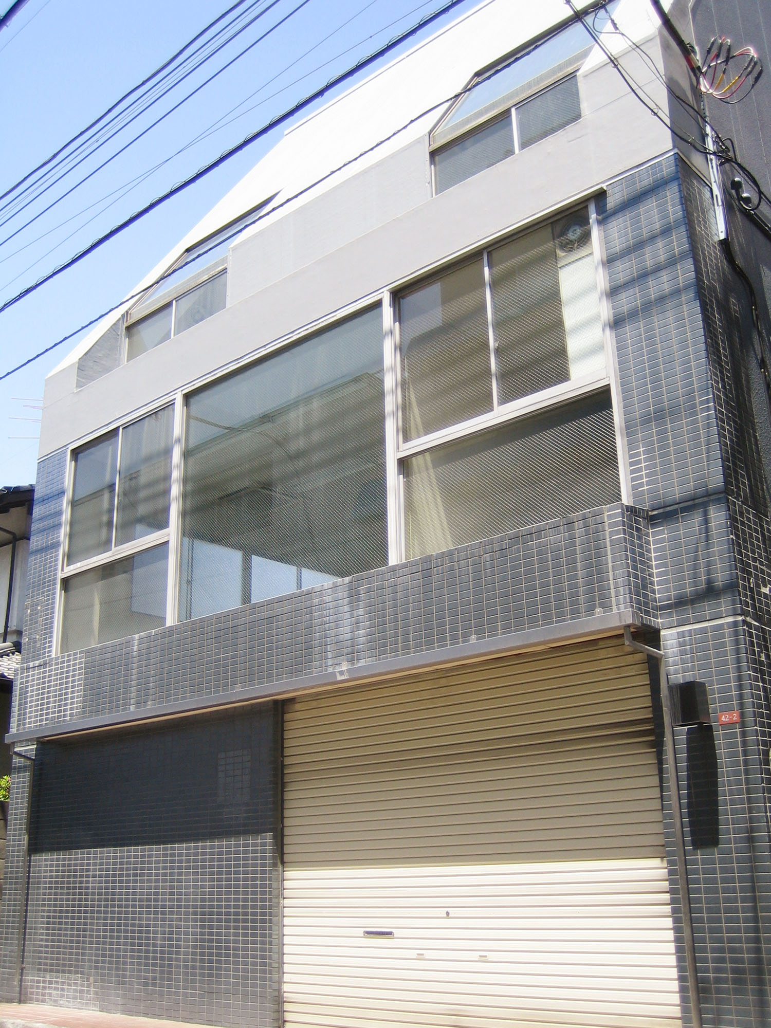 The former office building of the Studio Deen (スタジオディーン), in Suginami, Tokyo, Japan